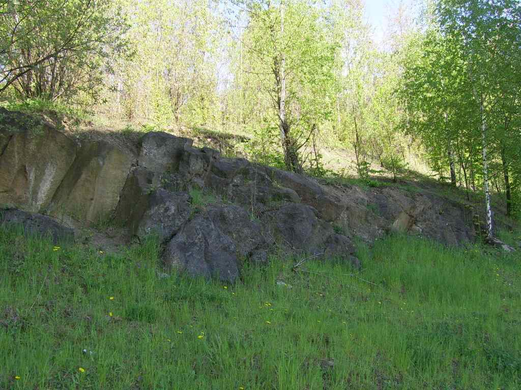 The documentary site in Cieszyn (Kręta street), Poland – the outcrop of teschenite intrusion.